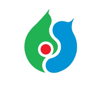 Flag of Tohoku Aomori